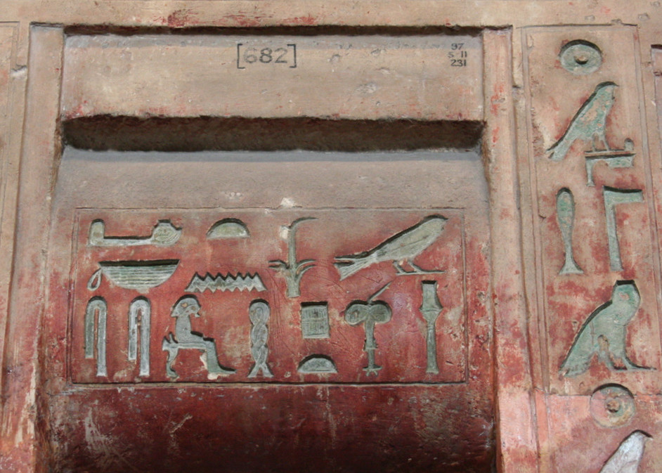 Photos from a day trip into London with Dori and Sub-Evil Boy. Dori had particular plans (including dinner with some friends), so we were really only with her on the train in and the return train at the end. Most of these are from the British Museum, along with a few odds and ends around London. This is the full set of everything I shot, unedited and uncleaned. The only change is that they've been scaled down to make the upload faster.